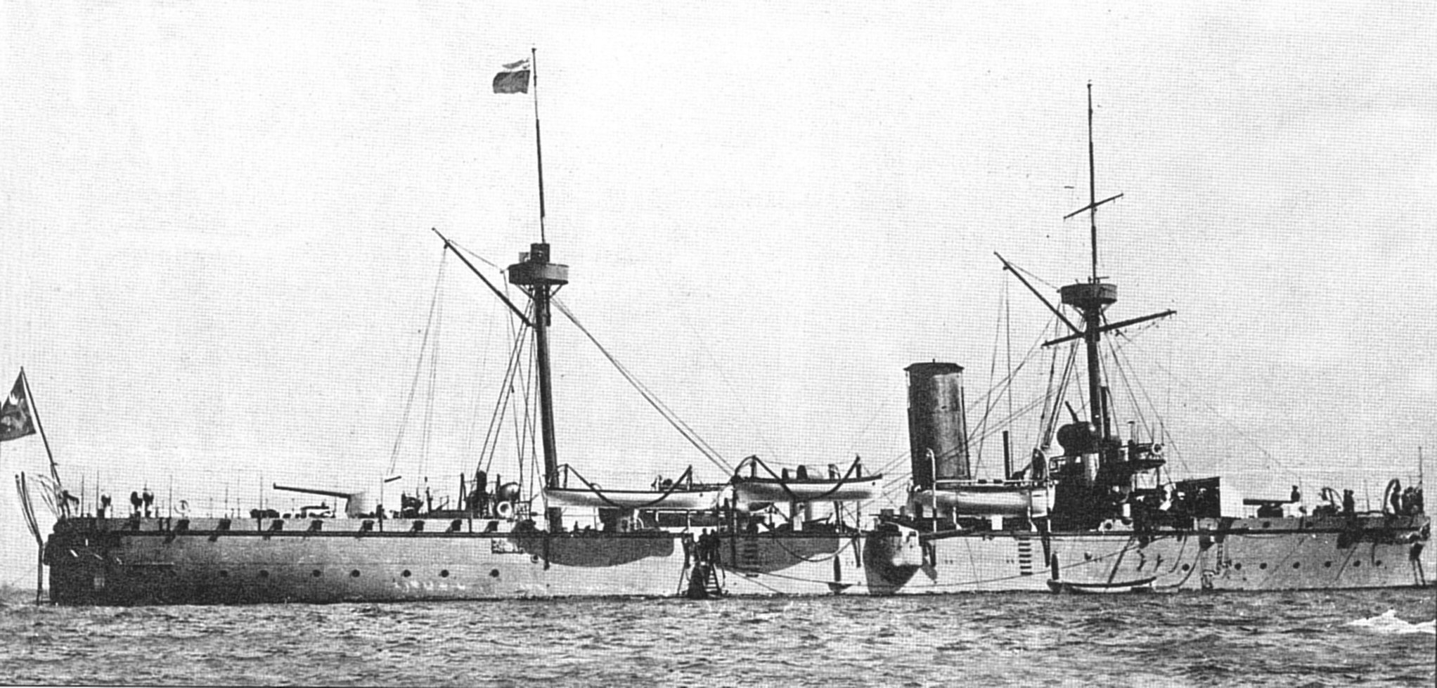 The chinese cruiser Jingyuan (1886), built by Armstrong, at the Solent estuary, 1887